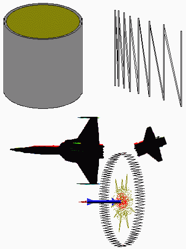 Schematic picture of a continuous-rod warhead